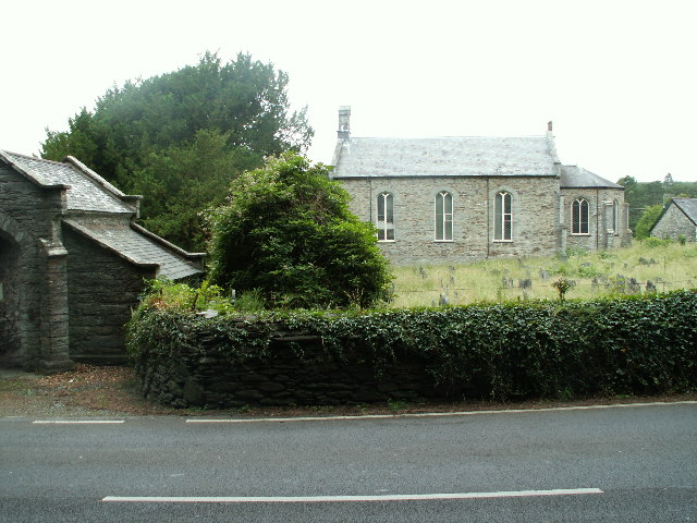 Eglwys Fach Church. Church and Churchyard, Eglwysfach, alongside the A487.